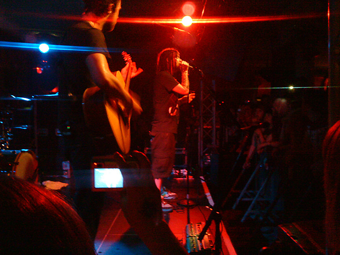 The Usesd in Munich